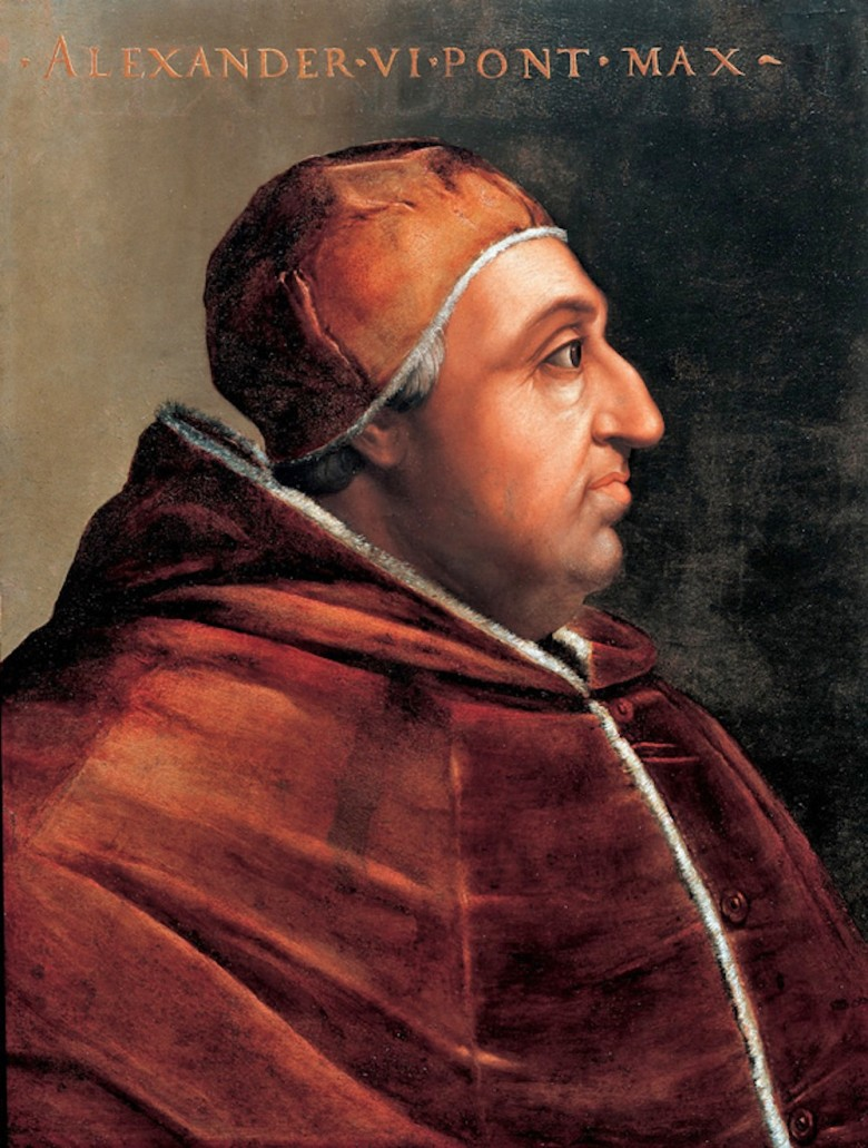 Portrait of Pope Alexander VI. Painting located at Corridoio Vasariano (museum) in Florence (Firenze), Italy. Measures of painting: 59 x 44 cm.